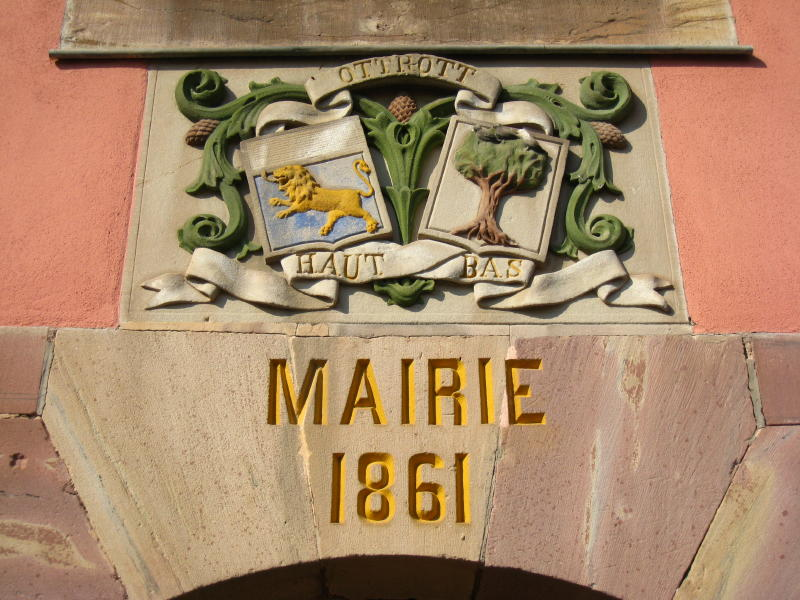 Blazons on the townhall front door of Ottrott, Alsace, France